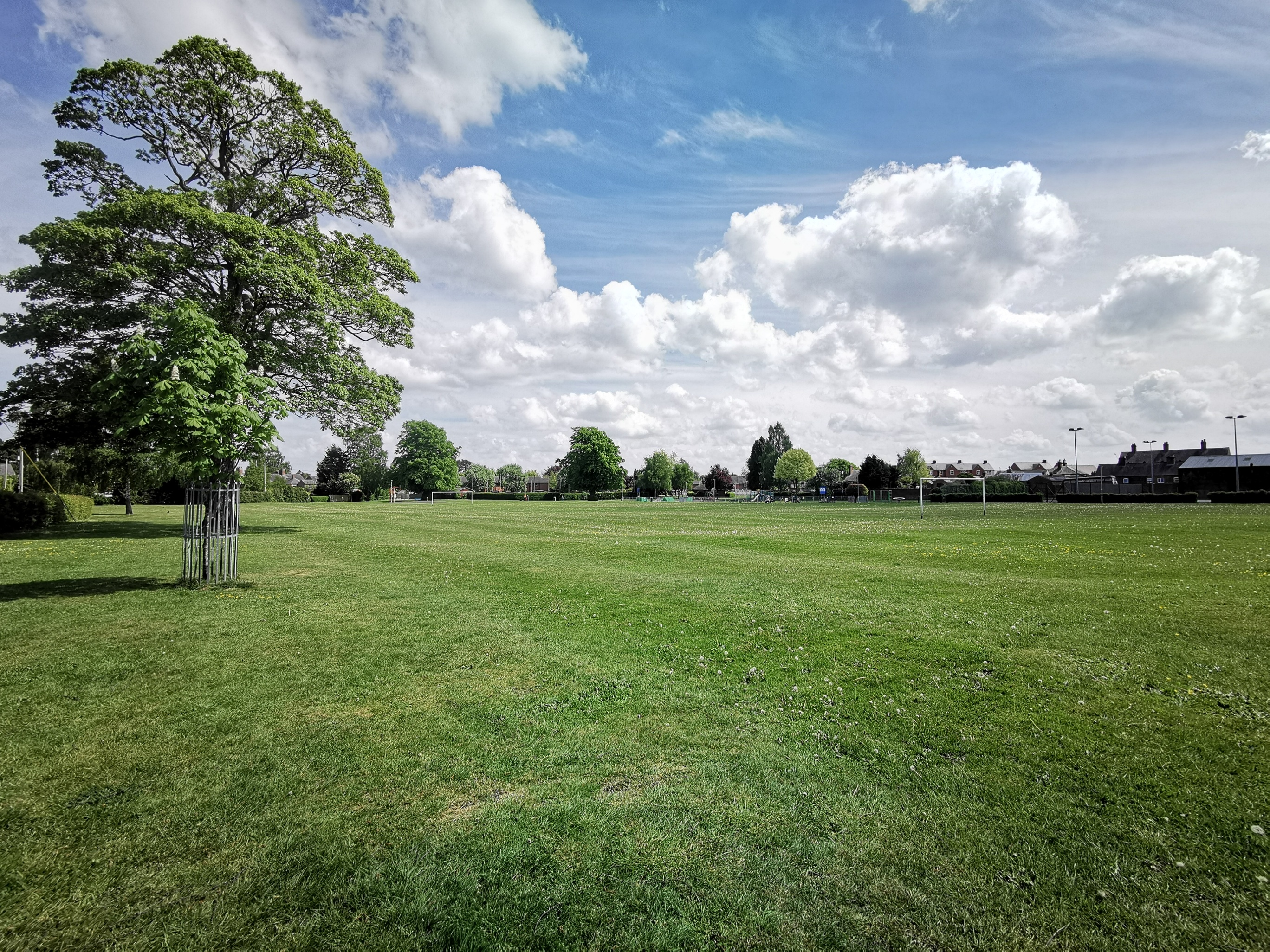 Wem Rec Ground